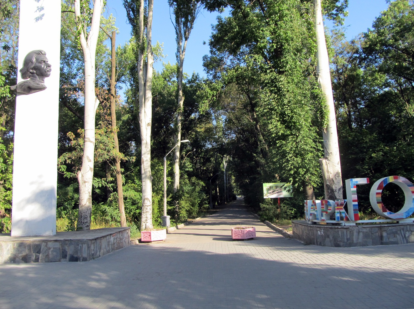 Bogdana Hmelnitskogo Ave., Melitopol, Zaporizhia Oblast, Ukraine.